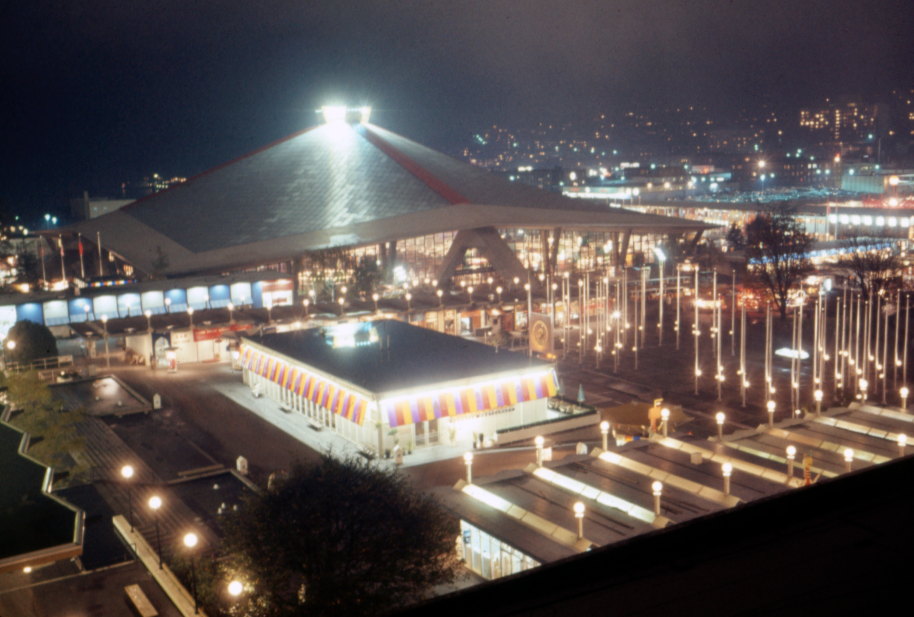 Seattle Center Coliseum, later KeyArena, at night, circa 1963.